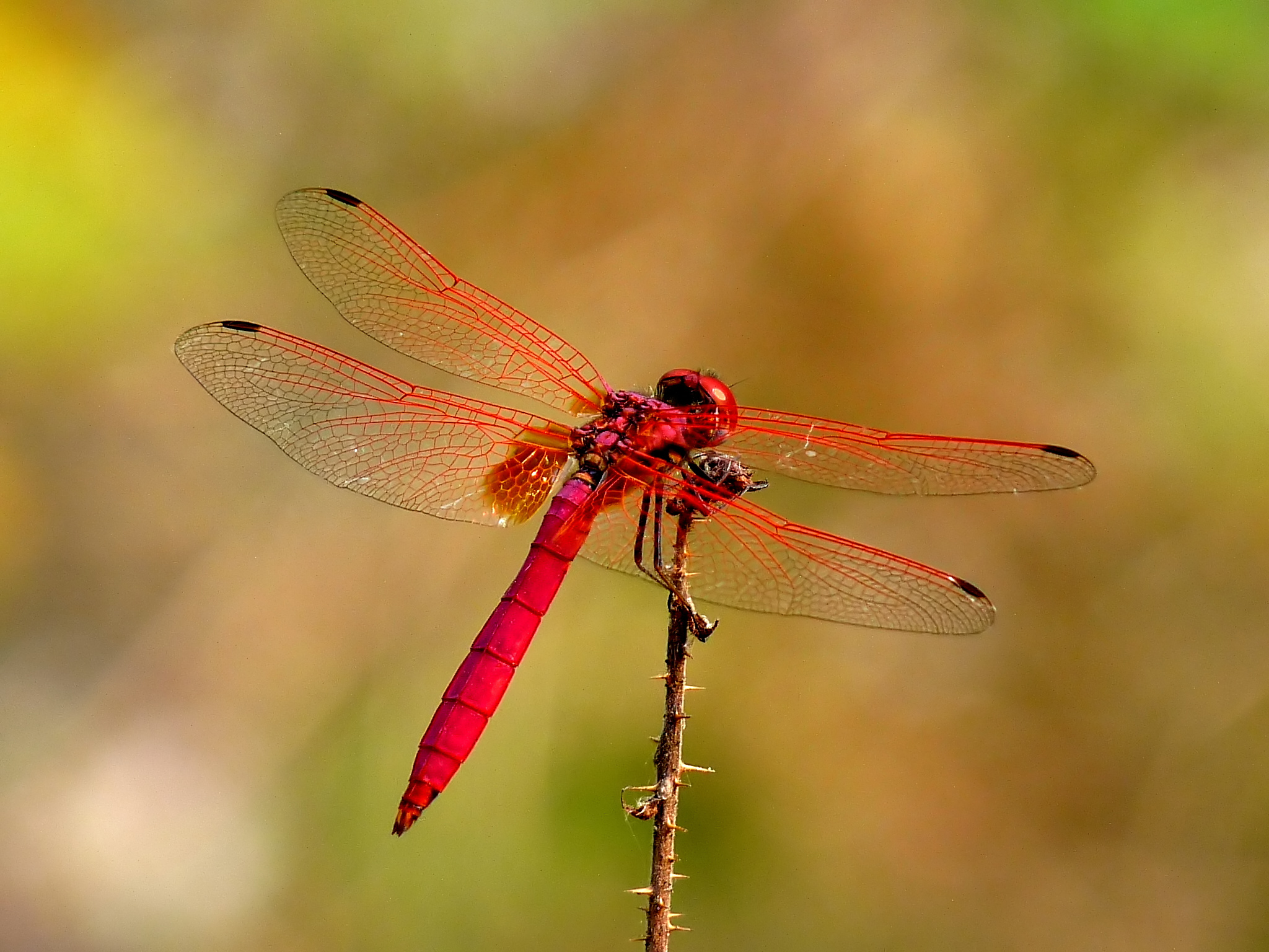 Trithemis aurora, Crimson Marsh Glider, is a species of dragonfly in the family Libellulidae. The male has a reddish brown face, with eyes that are crimson above and brown on the sides. The thorax is red with a fine, purple pruinescence. The abdomen, the base of which is swollen, is crimson with a violet tinge. The wings are transparent with crimson venation and the base has a broad amber patch. The wing spots are a dark reddish-brown and the legs are black. The female has an olivaceous or bright reddish-brown face with eyes that are purplish-brown above and grey below. The thorax is olivaceous with brown median and black lateral stripes. The abdomen is reddish-brown with median and lateral black markings. The black markings are confluent at the end of each segment and enclose a reddish-brown spot. The wings are transparent with brown tips. The venation is bright yellow to brown and basal amber markings are pale. The wing spots are a dark brown and the lags are dark grey with narrow yellow stripes. Taken at Kadavoor, Kerala, India.